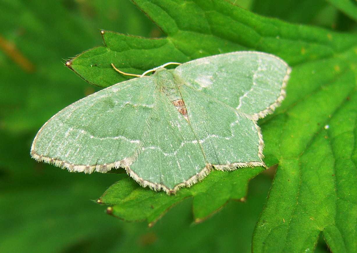 Common emerald, photo made in Wavrin, near Lille (northern France).